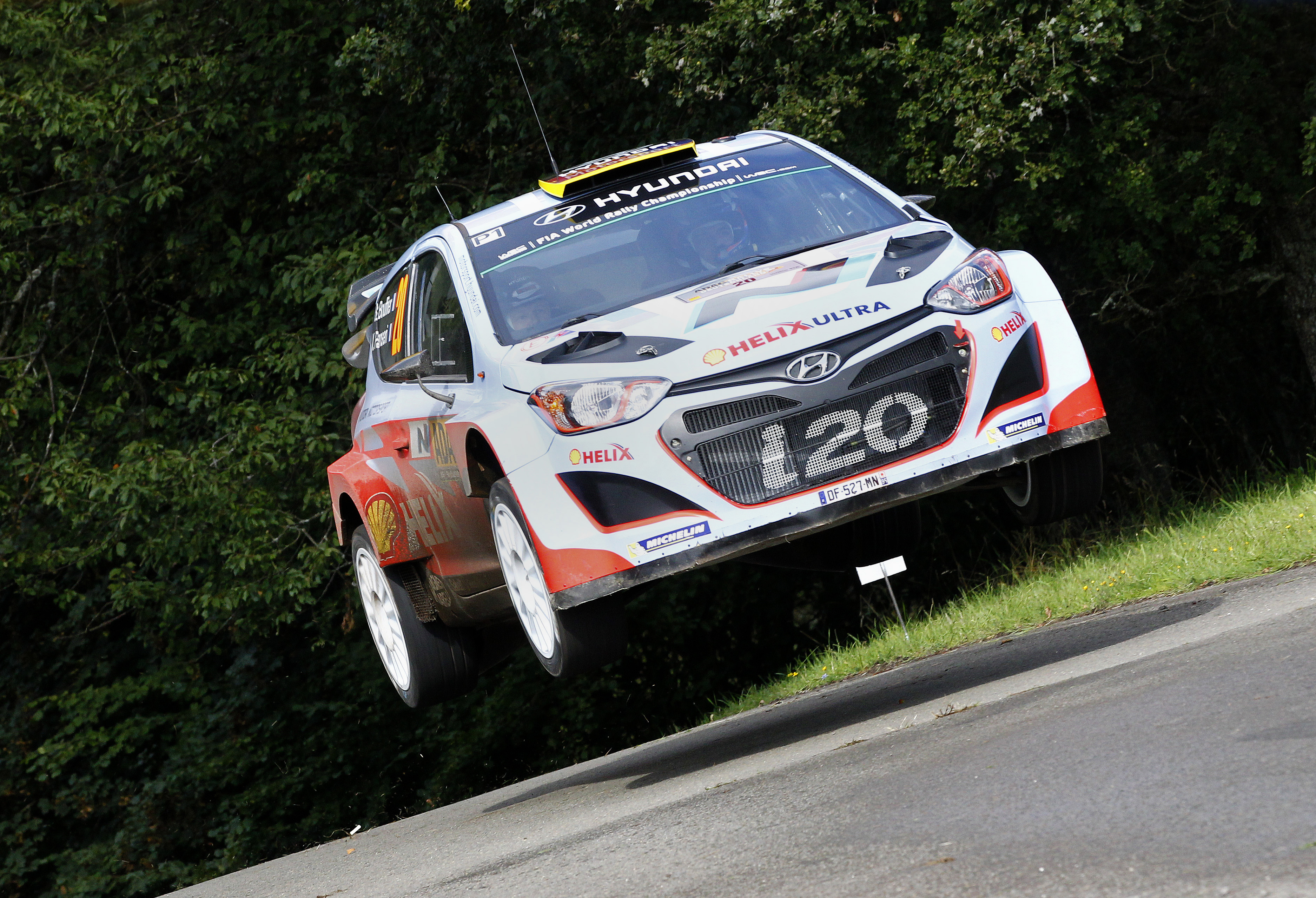 Bryan Bouffier and co-driver Xavier Panseri in their Hyundai i20 WRC at the 2014 Rally Germany (Rallye Deutschland).